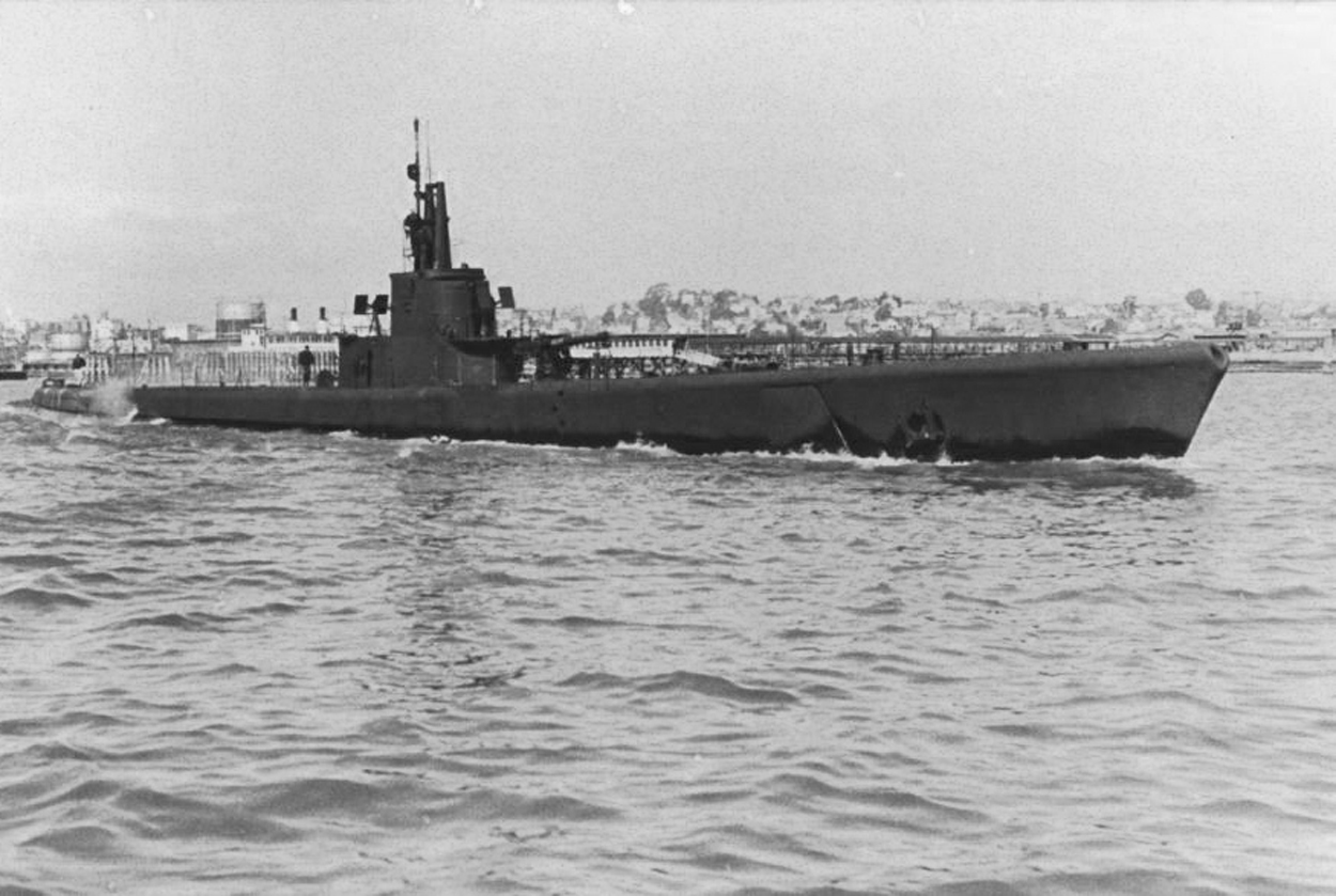 Harder (SS-257) at Mare Island on 19 February 1944